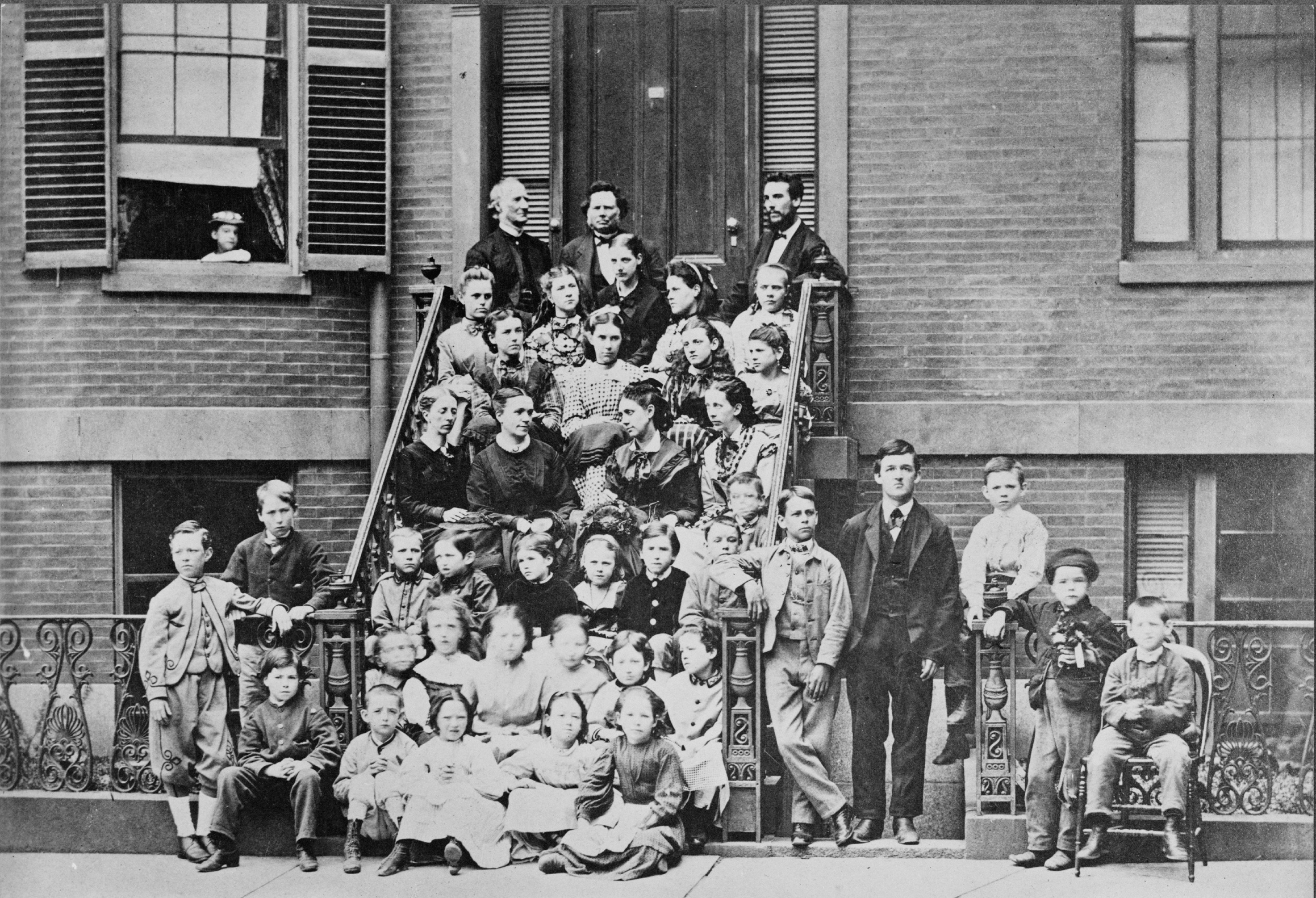 Alexander Graham Bell, teacher of teachers, seated on top step with Rev. Dexter King, founder of the school, and Dr. Ira Allen, chairman of the school committee, three steps down are teachers Annie M. Bond, Sarah Fuller, Ellen L. Barton, and Mary H. True, students are seated on the steps and standing on the sidewalk at entrance to the Pemberton Square School (Boston School for the Deaf) in Boston, Mass. Negative is of published image which includes caption identifying everyone except the students. In album: Photographs of Alexander Graham Bell : Selected by him for preservation in the Beinn Bhreagh Recorder. Forms part of: Gilbert H. Grosvenor Collection of Photographs of the Alexander Graham Bell Family (Library of Congress). Library of Congress Prints and Photographs Division Washington, D.C. 20540 USA (b&w film copy neg.) ppmsc 00837 CONTROL #: 00649777 TITLE: Alexander Graham Bell at the Pemberton Square School in 1871 CALL NUMBER: LOT 11533-3-55, no. 10 [P&P]